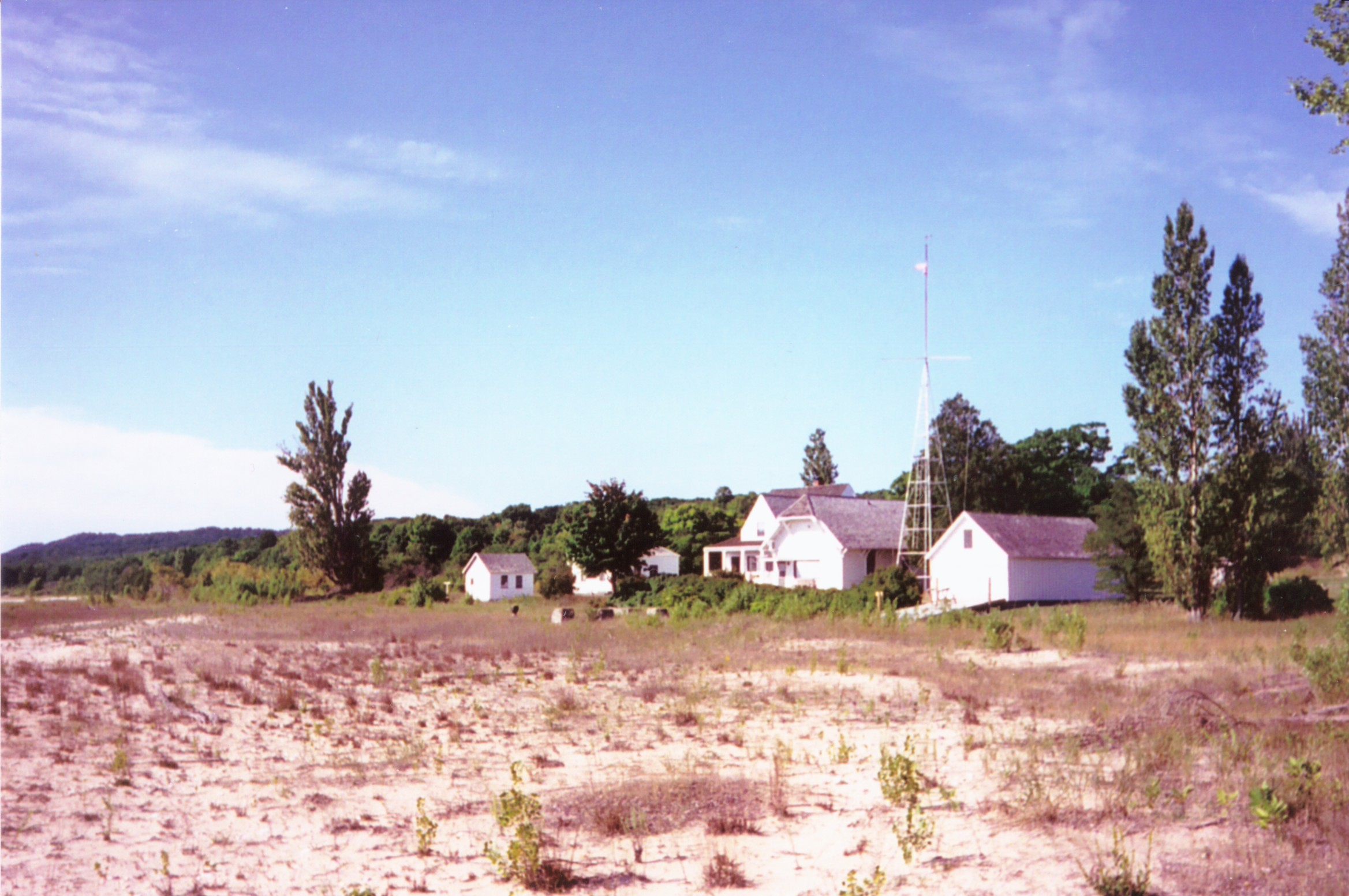 North Manitou Island Lifesaving Station, East Coast, North Manitou Island Leland Township